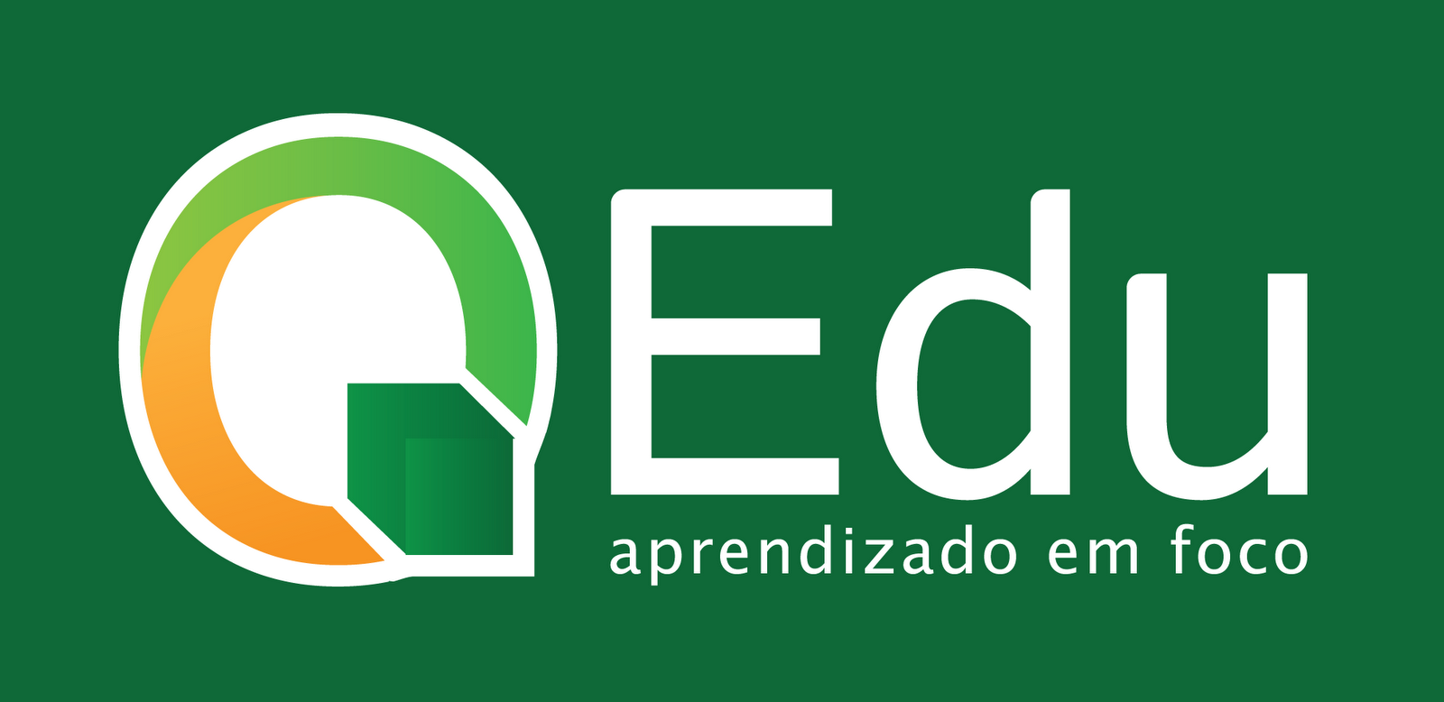 QEdu logo.